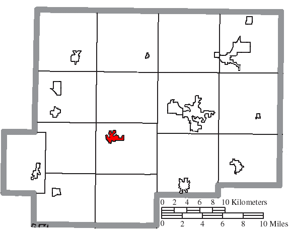 Map of the municipal and township boundaries of Putnam County, Ohio, United States, as of the 2000 census, with the location of the village of Kalida highlighted. Township borders are shown only in unincorporated areas in order to differentiate incorporated and unincorporated areas more clearly.